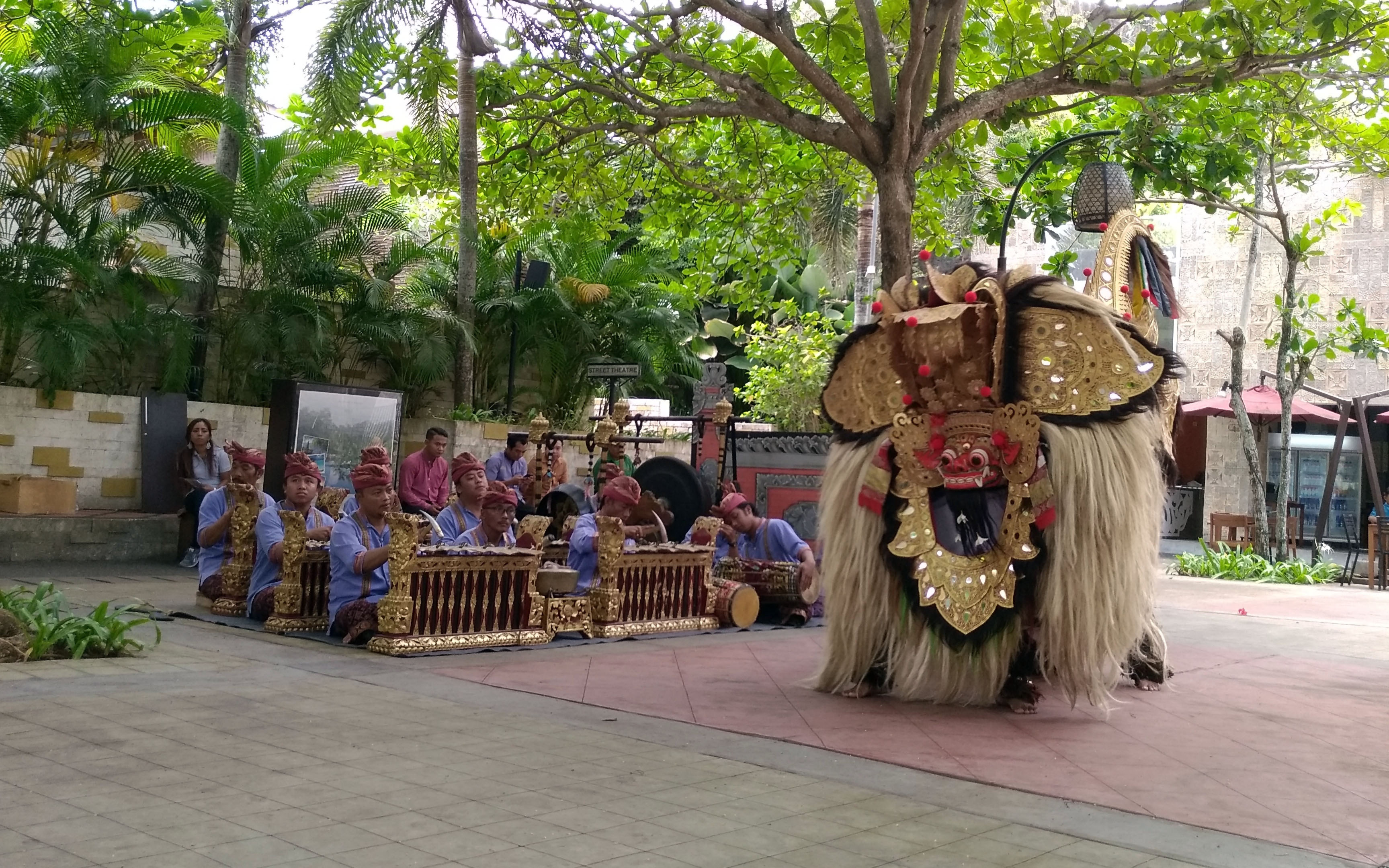 Performance art of the traditional Bali lion dance also known as Barong Bali with traditional gamelan music ensemble. Performance was held at Garuda Wisnu Kencana arts complex.